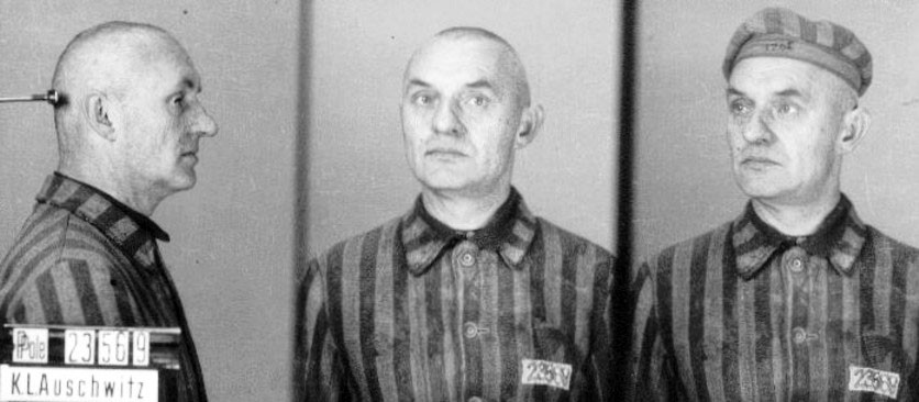 Jan Karcz (1892-1943) – Colonel of the Polish Army, murdered in Nazi-German Concentration Camp KL-Auschwitz